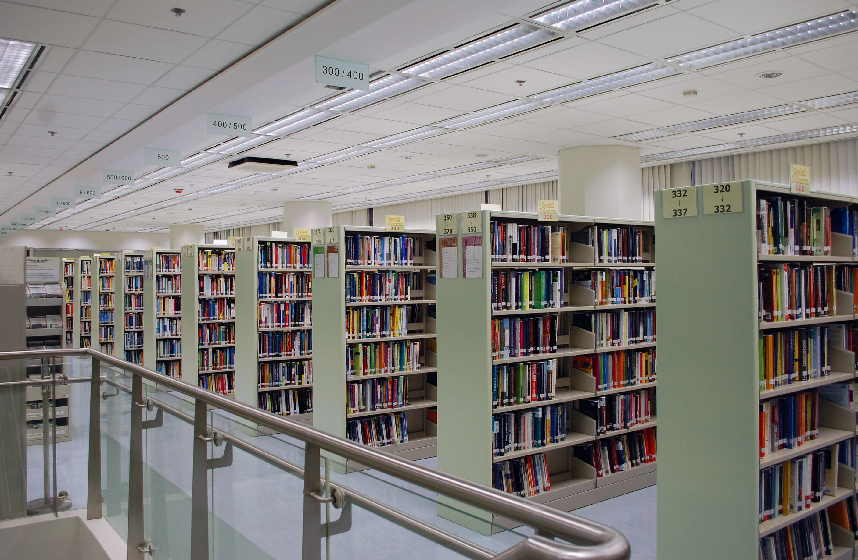 The Adult Lending Library (English department) of the Kowloon Public Library. 中文（香港）: 九龍公共圖書館，7樓成人圖書館（英文部）